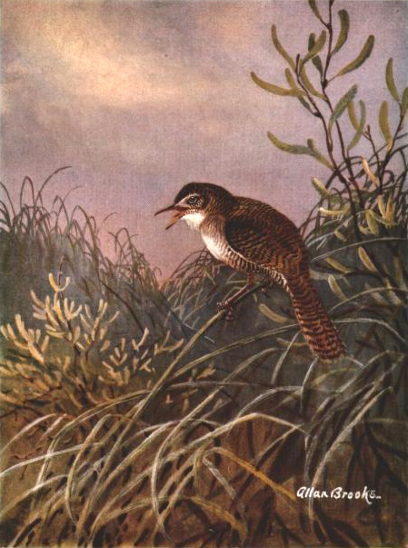 Zapata Wren (Ferminia cerverai)